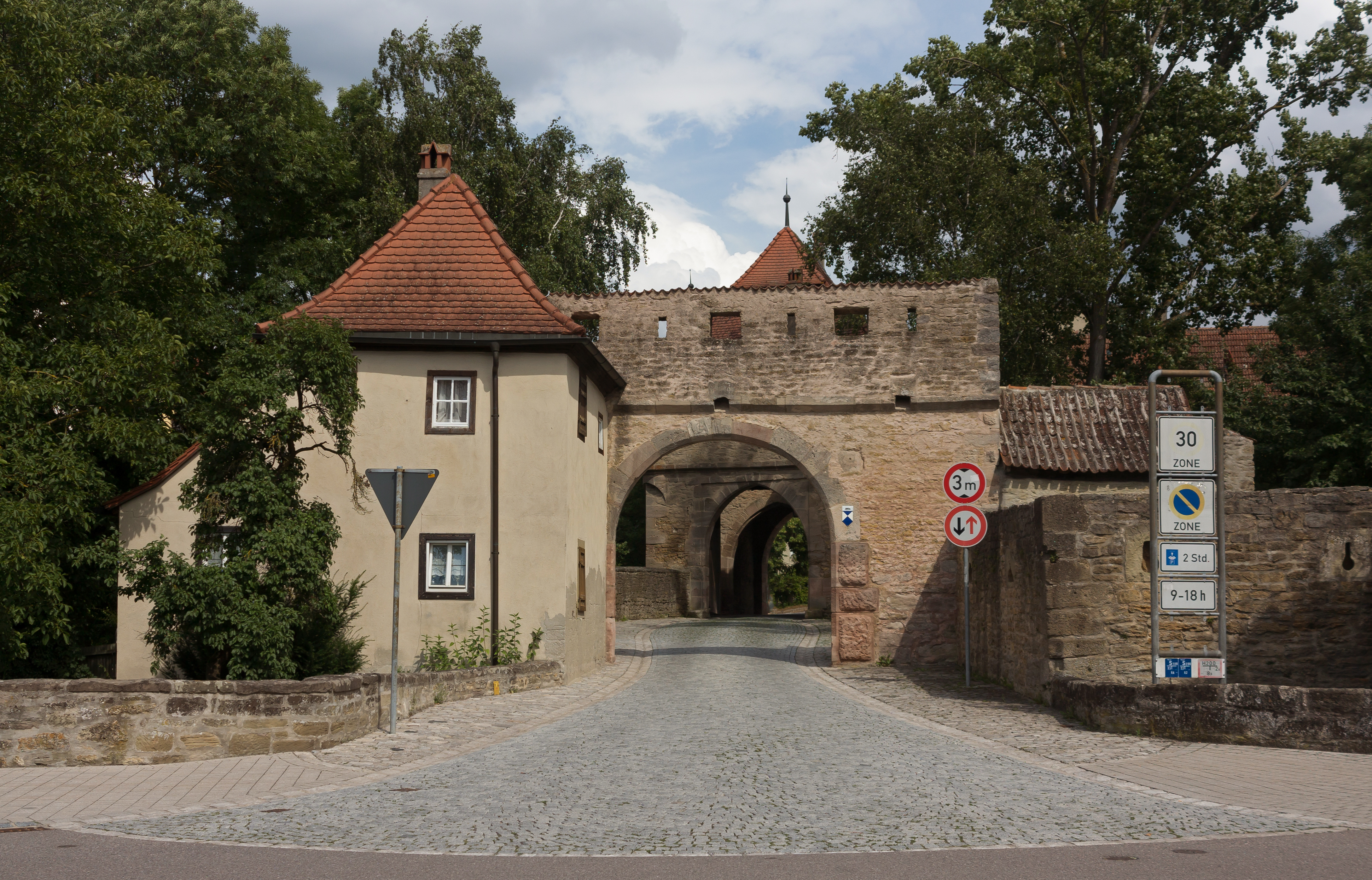 Iphofen, towngate: Mainbernheimer TorThis is a photograph of an architectural monument.